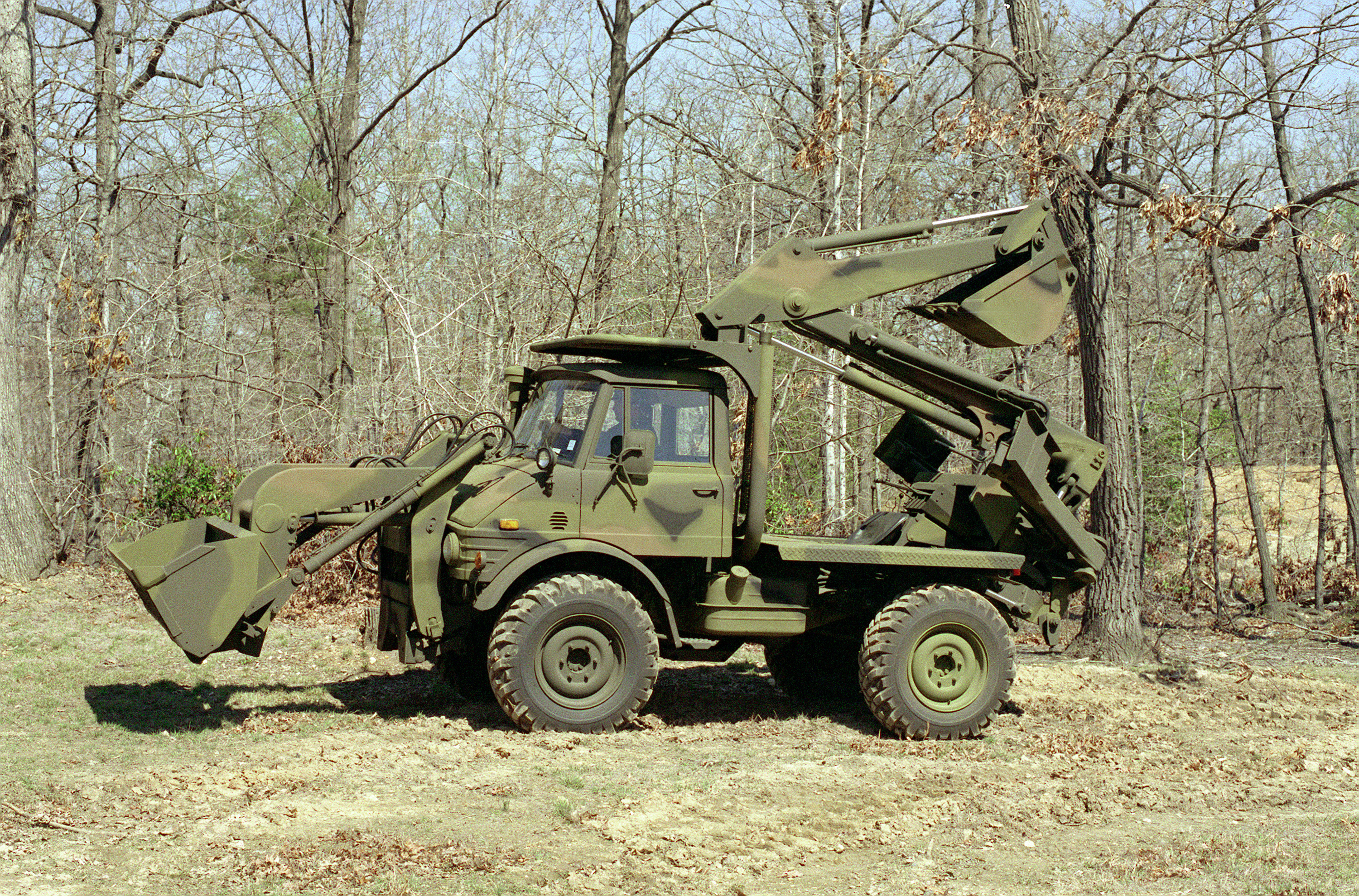 A right side view of a cross-country vehicle (NSN/FSC:2320 010478756) with front bucket loader and rear backhoe attachments. Eight of these vehicles have been acquired by the U.S. Army Mobility Equipment Research and Development Command for evaluation as a small emplacement excavator (SPE) for the High Technology Light Division.